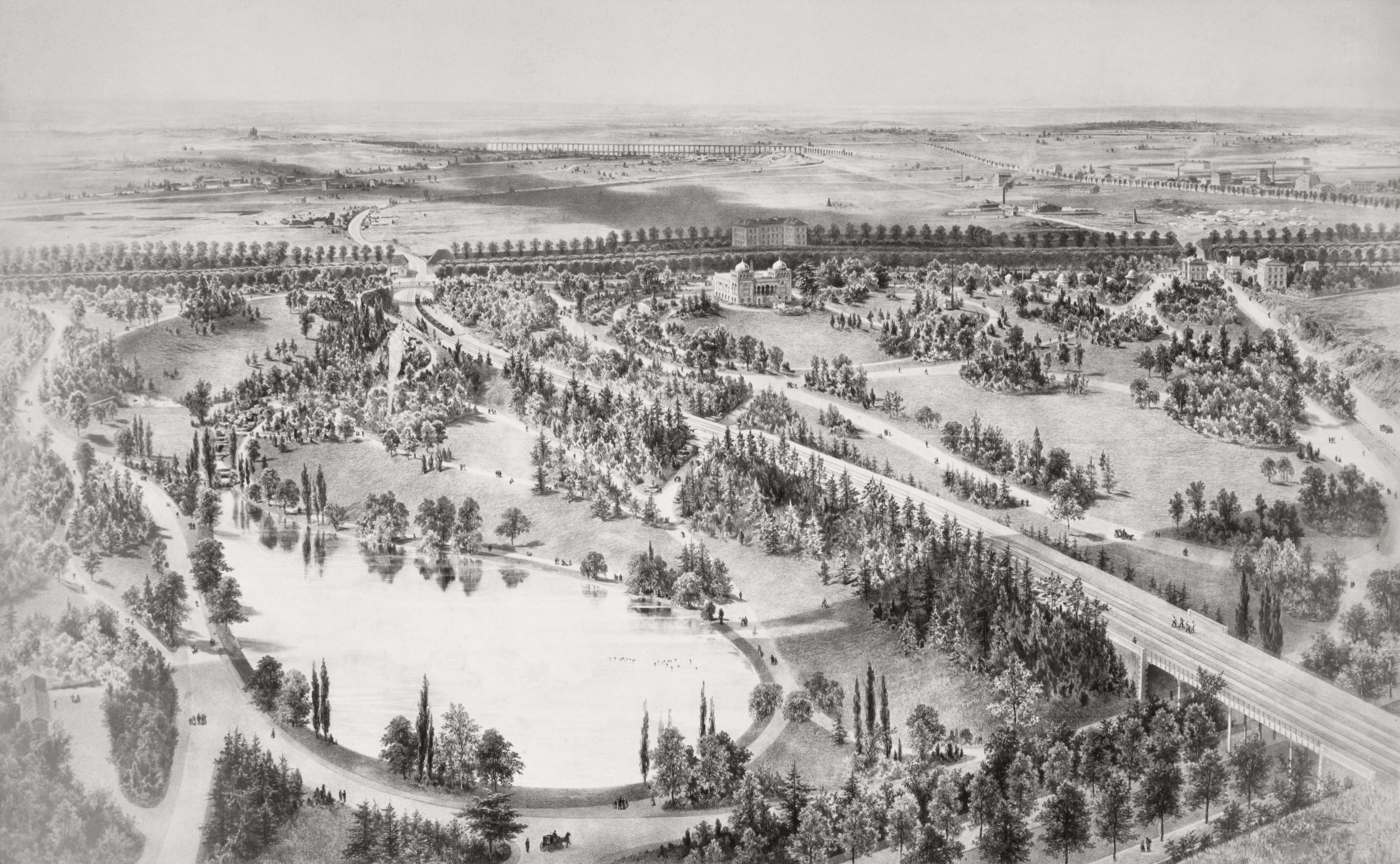 Photograph of a drawing showing elevated view of the Parc Montsouris, XIVe arrondissement, Paris; in the background aqueduct of Arcueil, France.